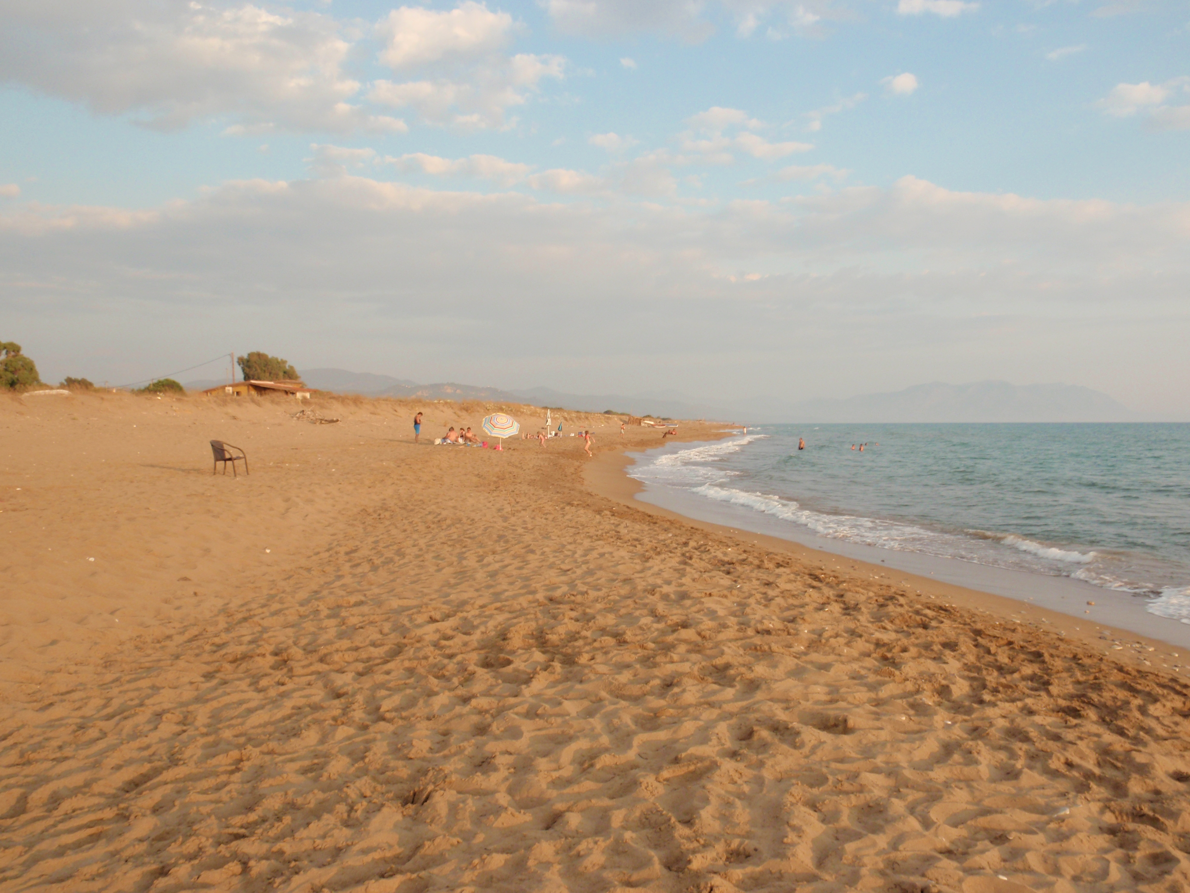 This is a photography of Natura 2000 protected area with ID GR2330005